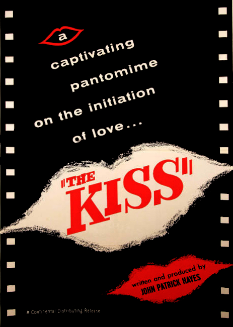 Poster for Oscar-nominated 1958 short film "The Kiss" by John Patrick Hayes.